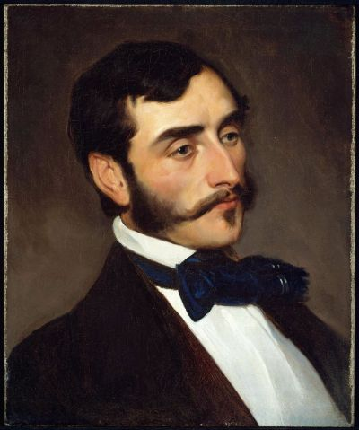 Portrait of the American artist William Morris Hunt of Boston, Massachusetts, by Emanuel Leutze. Oil on canvas. Owned by the Hunt family and later sold at auction at Christie's. Now in the collection of the Museum of Find Arts, Boston.